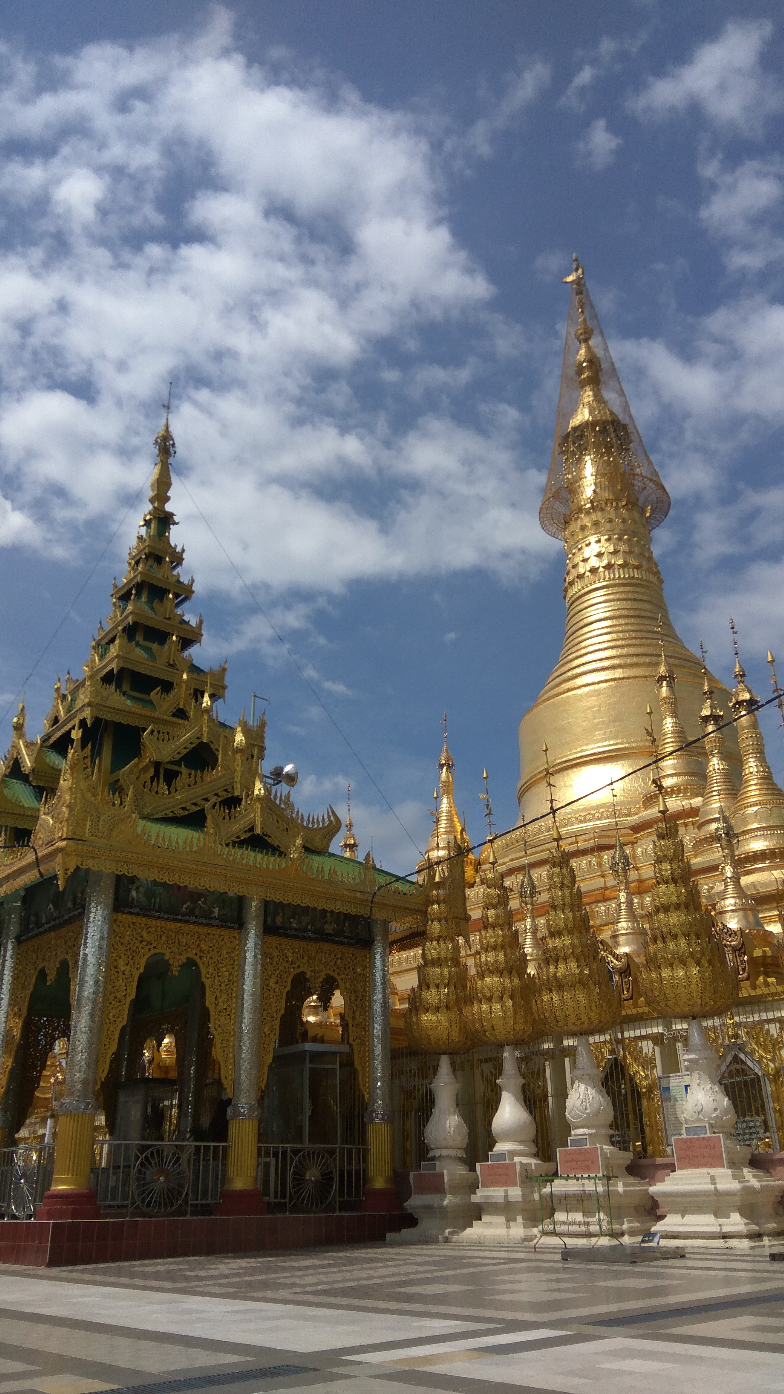 Shwe San Taw Pagoda, Pyay မြန်မာဘာသာ: ရွှေဆံတော်စေတီ၊ ပြည်မြို့